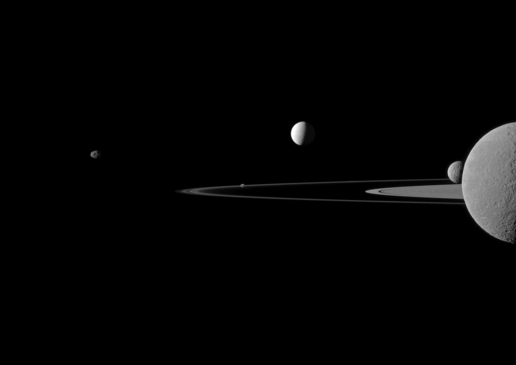 PIA14573: Quintet of Moons - Planet Saturn and Five Moons (black and white version) - July 29, 2011 A quintet of Saturn's moons come together in the Cassini spacecraft's field of view for this portrait. Janus (179 kilometers, or 111 miles across) is on the far left. Pandora (81 kilometers, or 50 miles across) orbits between the A ring and the thin F ring near the middle of the image. Brightly reflective Enceladus (504 kilometers, or 313 miles across) appears above the center of the image. Saturn's second largest moon, Rhea (1,528 kilometers, or 949 miles across), is bisected by the right edge of the image. The smaller moon Mimas (396 kilometers, or 246 miles across) can be seen beyond Rhea also on the right side of the image. This view looks toward the northern, sunlit side of the rings from just above the ringplane. Rhea is closest to Cassini here. The rings are beyond Rhea and Mimas. Enceladus is beyond the rings.